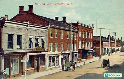 Georgetown's Main Street as it would have looked a hundred years ago.